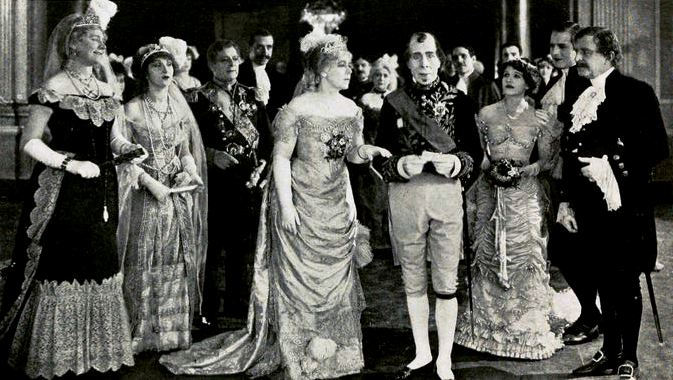 Still from the American film Disraeli (1921) with George Arliss, on page 158 of Peter Milne, Motion Picture Directing; The Facts and Theories of the Newest Art (1922).